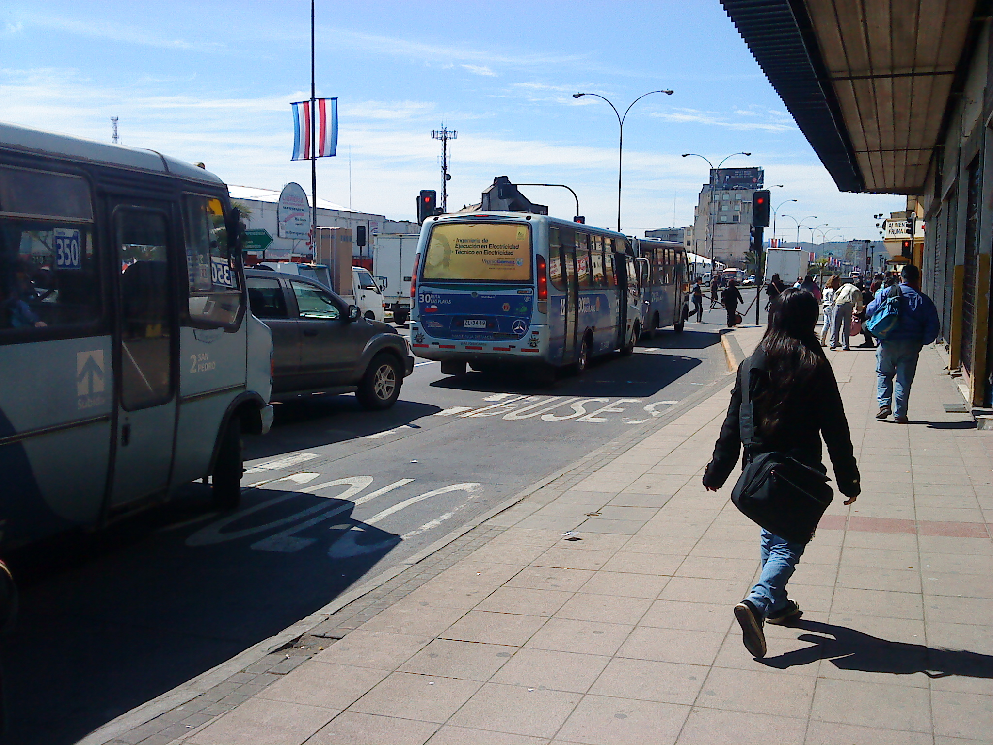 Buses in Concepcion, Chile.